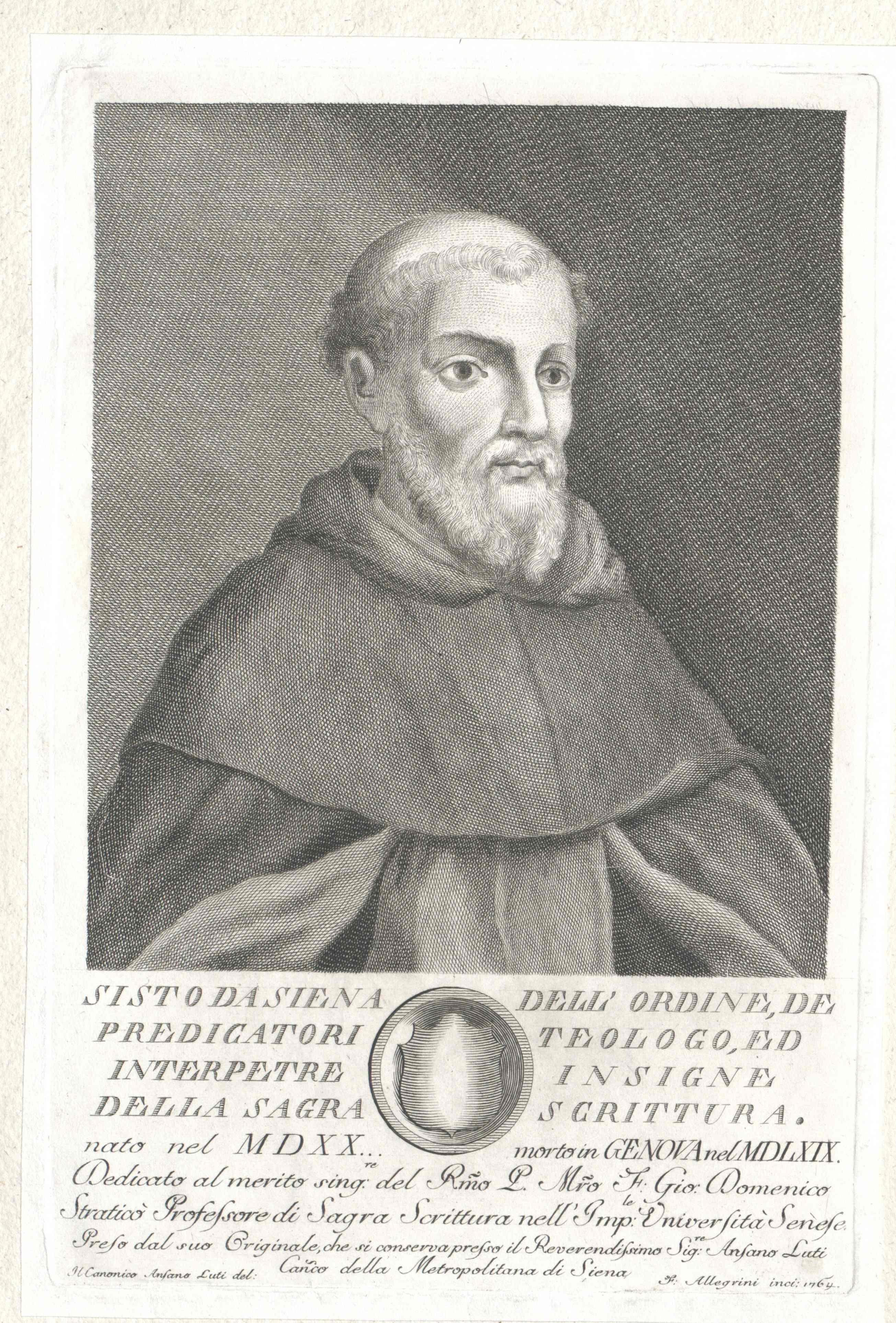 Portrait of Sixtus of Siena